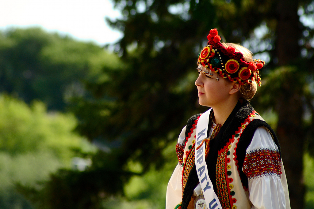 The Karpaty Ukrainian ambassador from FolkFest 2009 looks on as others perform at Taste of Saskatchewan.